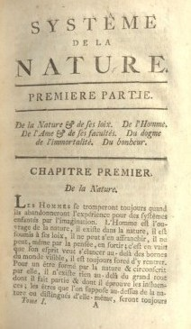 First page of Systeme de la Nature by Baron d'Holbach